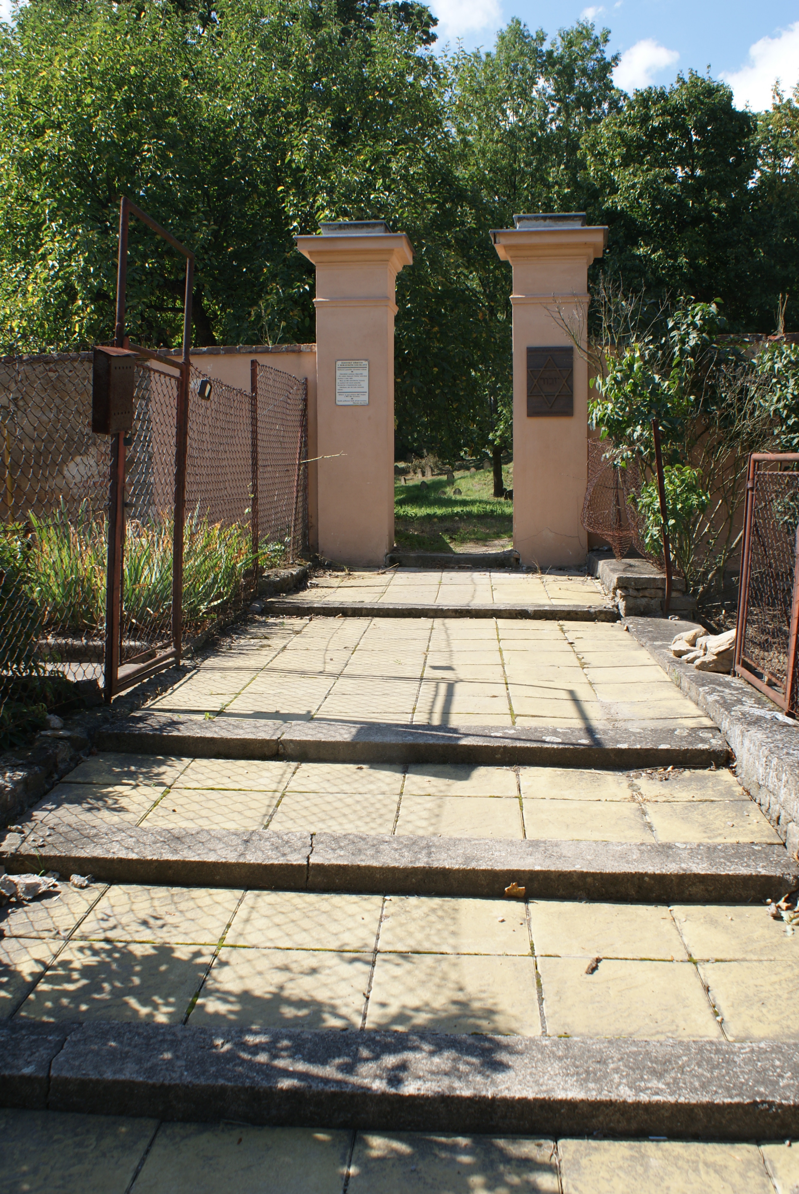 Moravský Krumlov, a town in Znojmo District, Czech Republic, Jewish cemetery